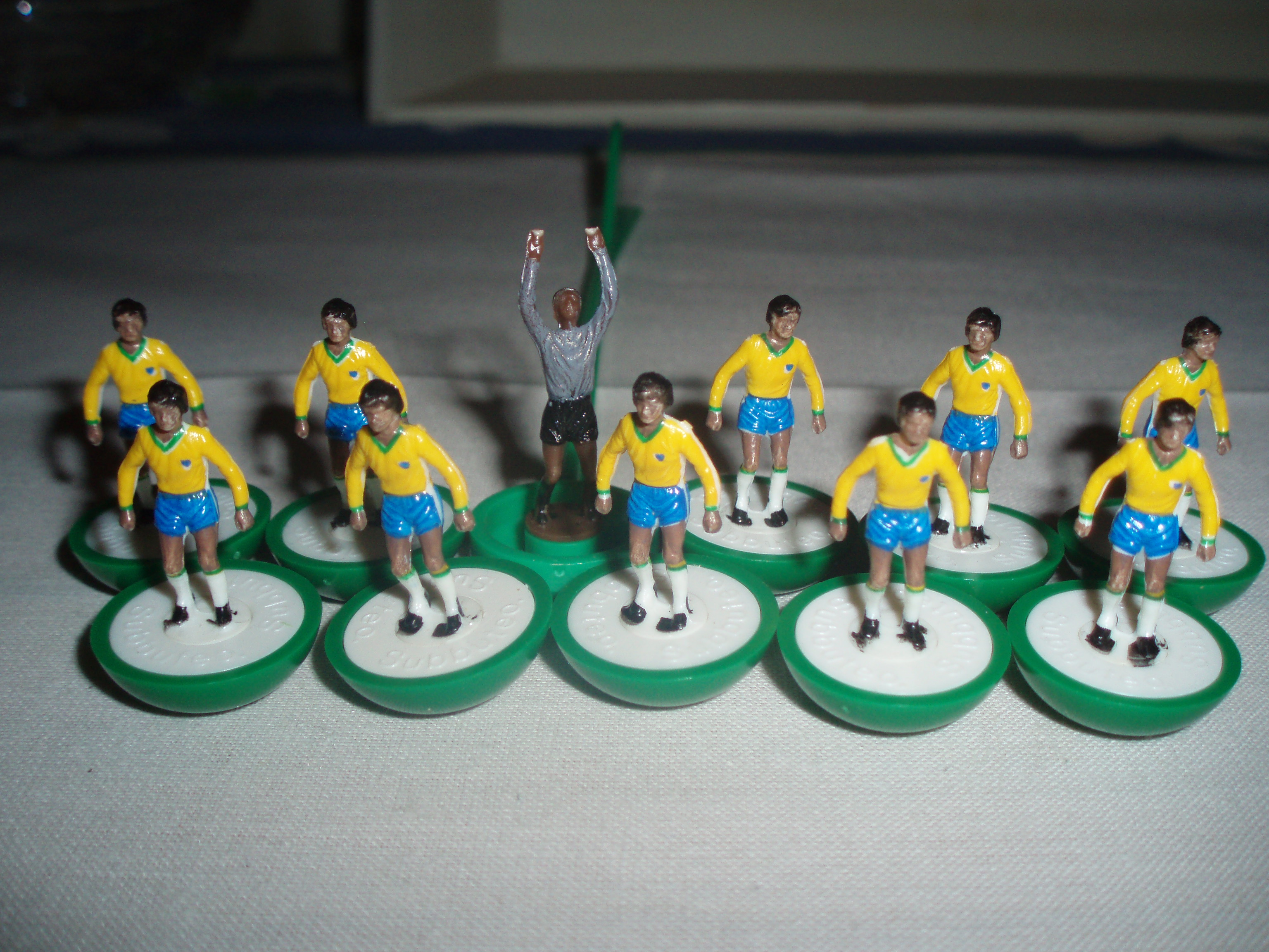 brazil 1990 national football team subbuteo